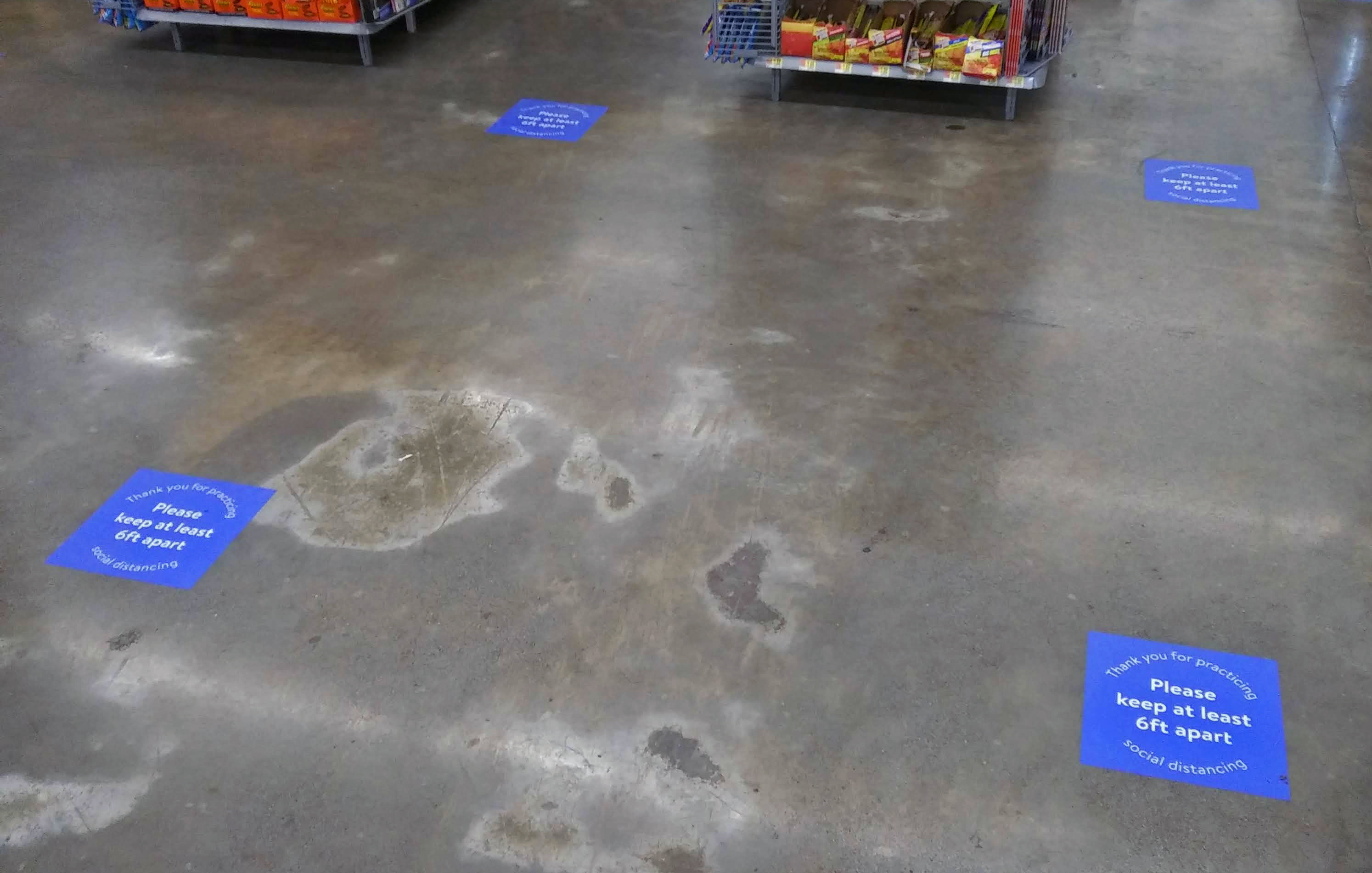 Signs on floors near the cash registers at Walmart store in Newburgh, NY, USA, reminding customers to keep 6-foot social distancing to prevent transmission of COVID-19